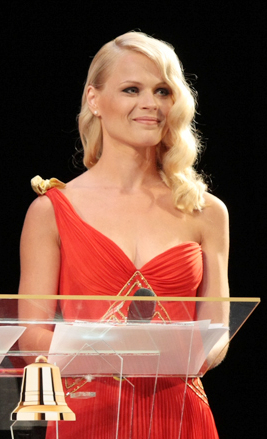 Olha Freimut